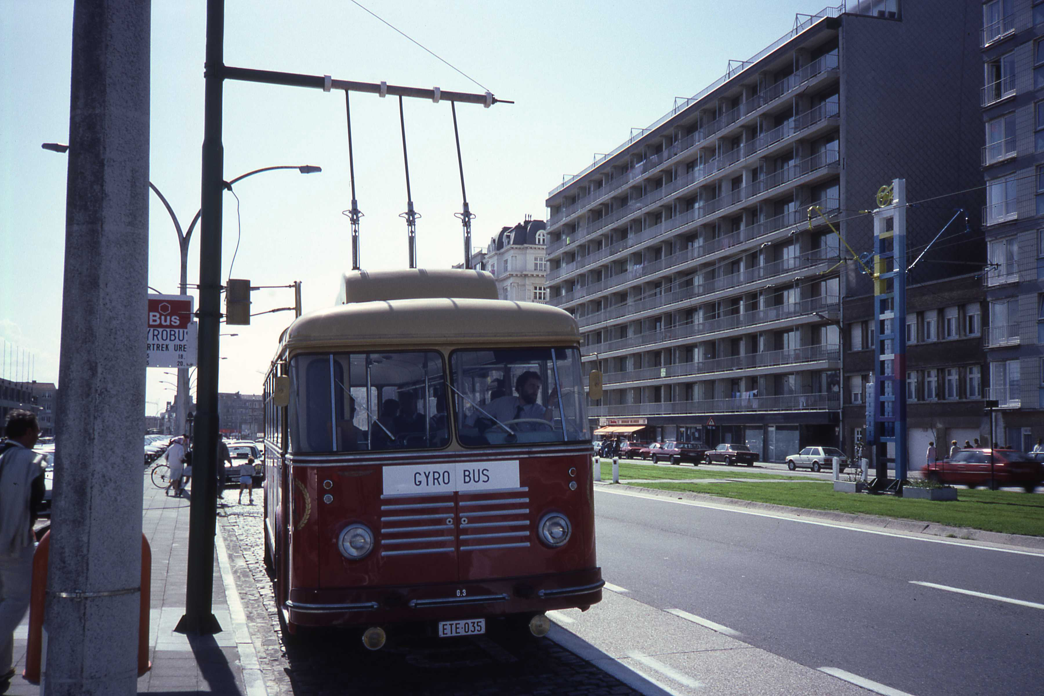 A demonstration Gyrobus loading up the flywheel at the electric loadpoint, where the three current phases are used. This is in Ostend with the festivities for the 100 years off vicinal railways in 1985.